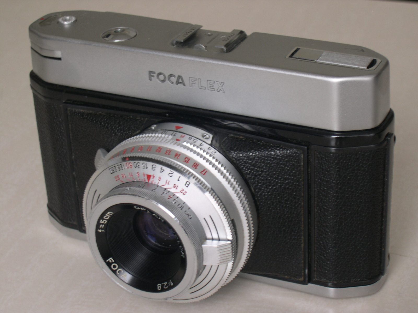 Focaflex, version 1, annee 1959.